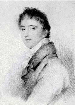 Drawing, portrait of Thomas Read Kemp (1782–1844), English property developer and politician.